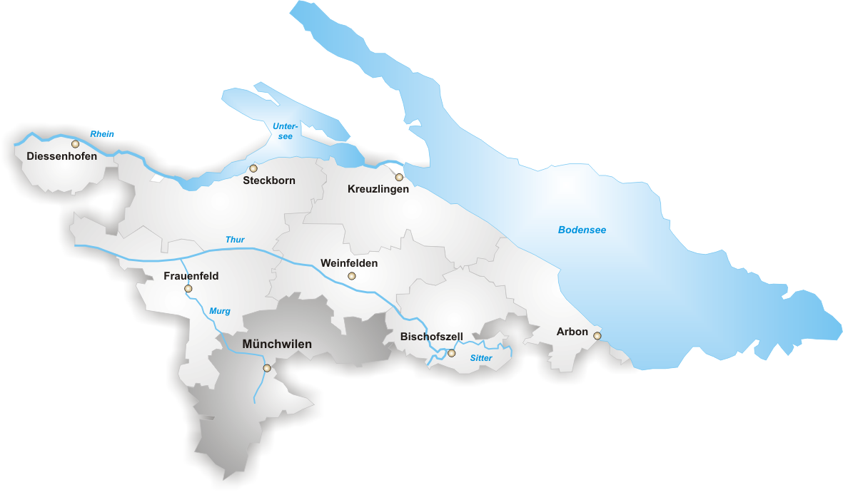 District Münchwilen